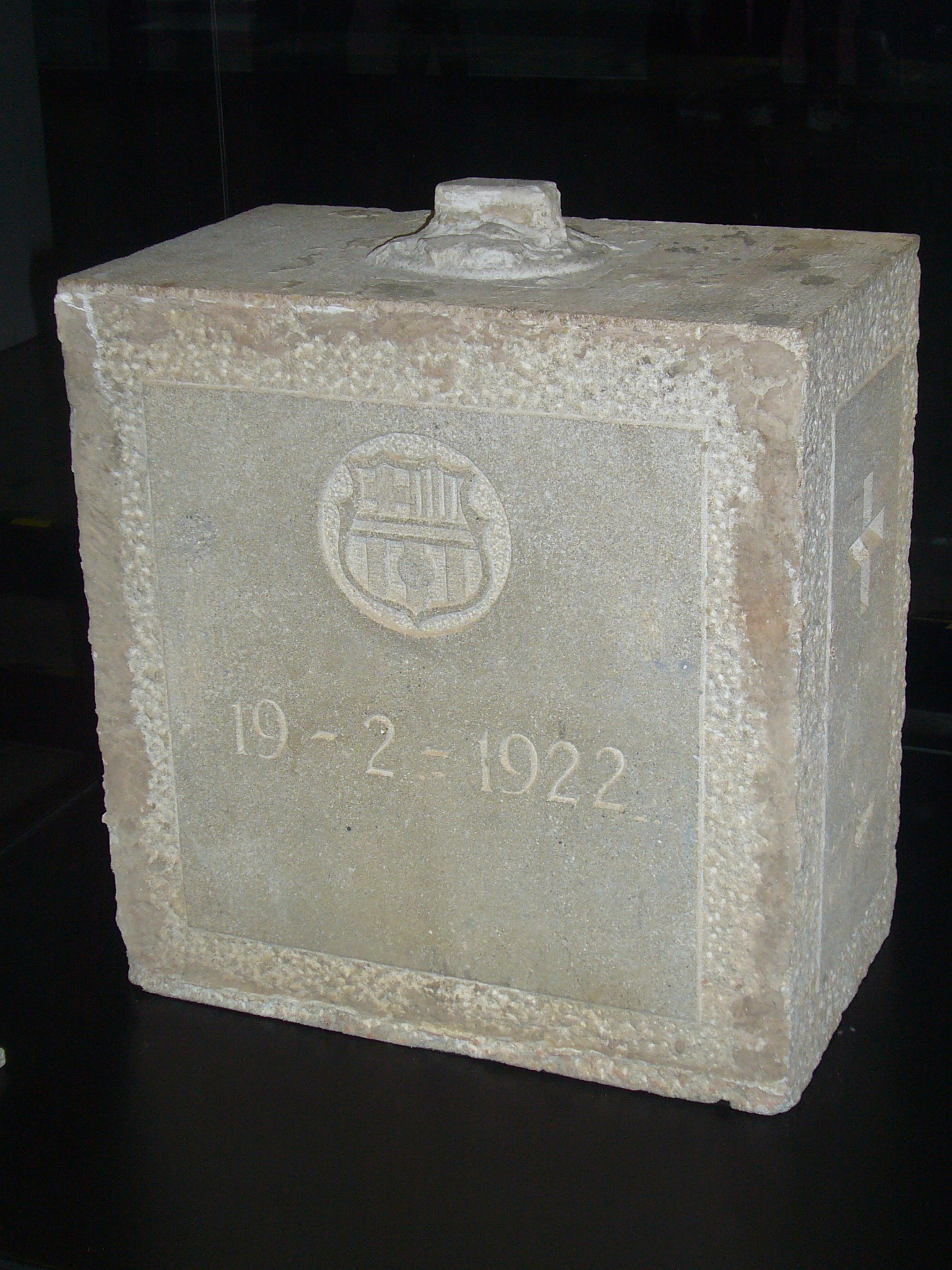 Foundation stone of the "Camp de les Corts" FC Barcelona stadium, 19/02/1922. Barça museum.